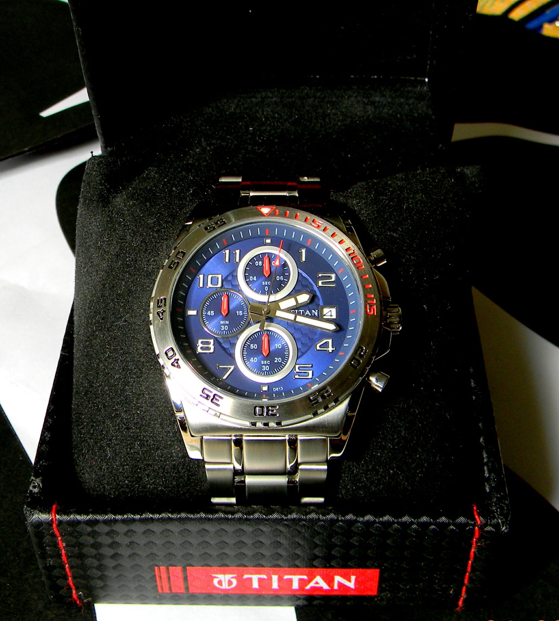 Titan Octane Series Watch